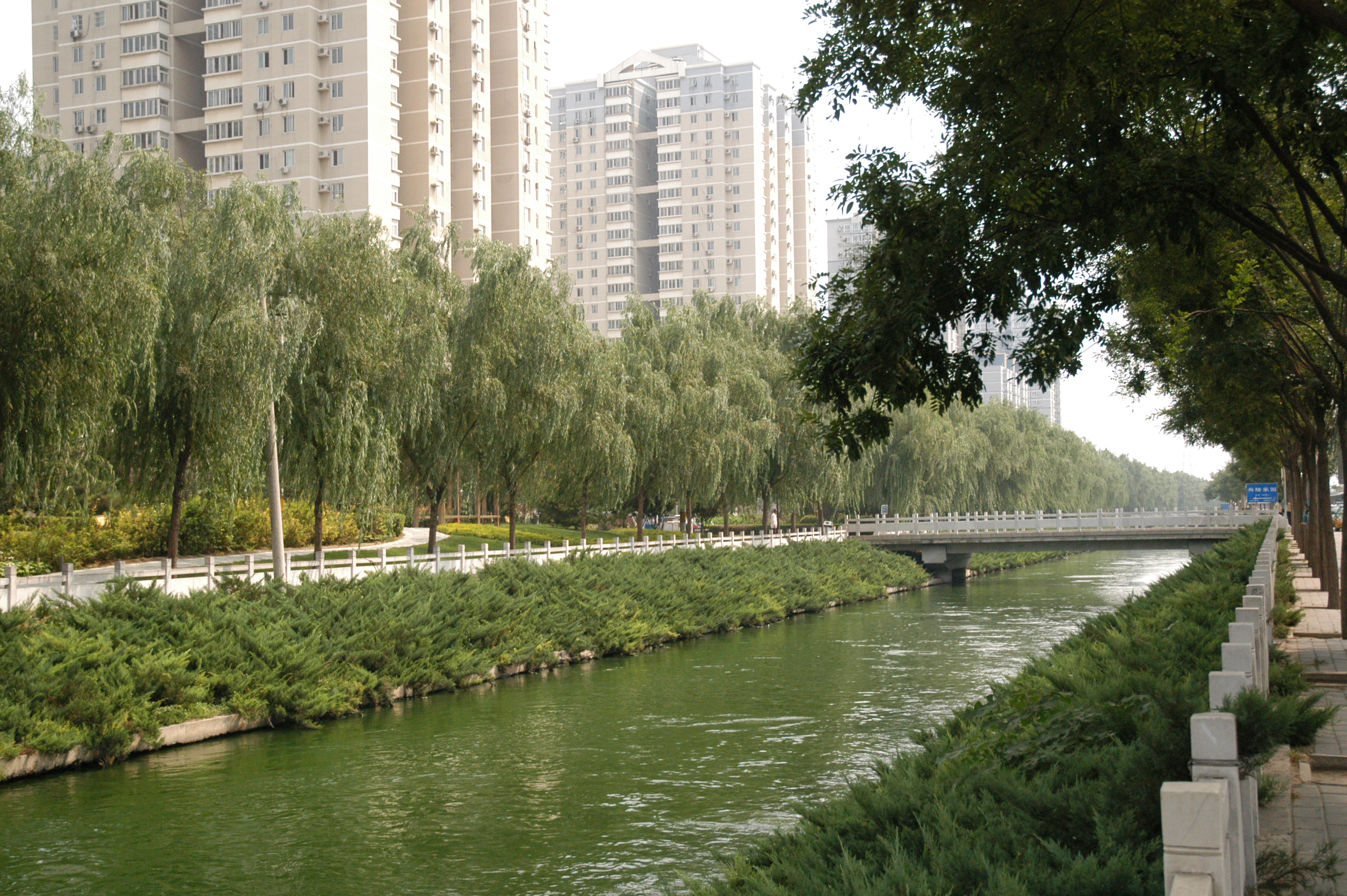 Aqueduct leading to the Gaobeidian reservoir in Chaoyang District, Beijing.